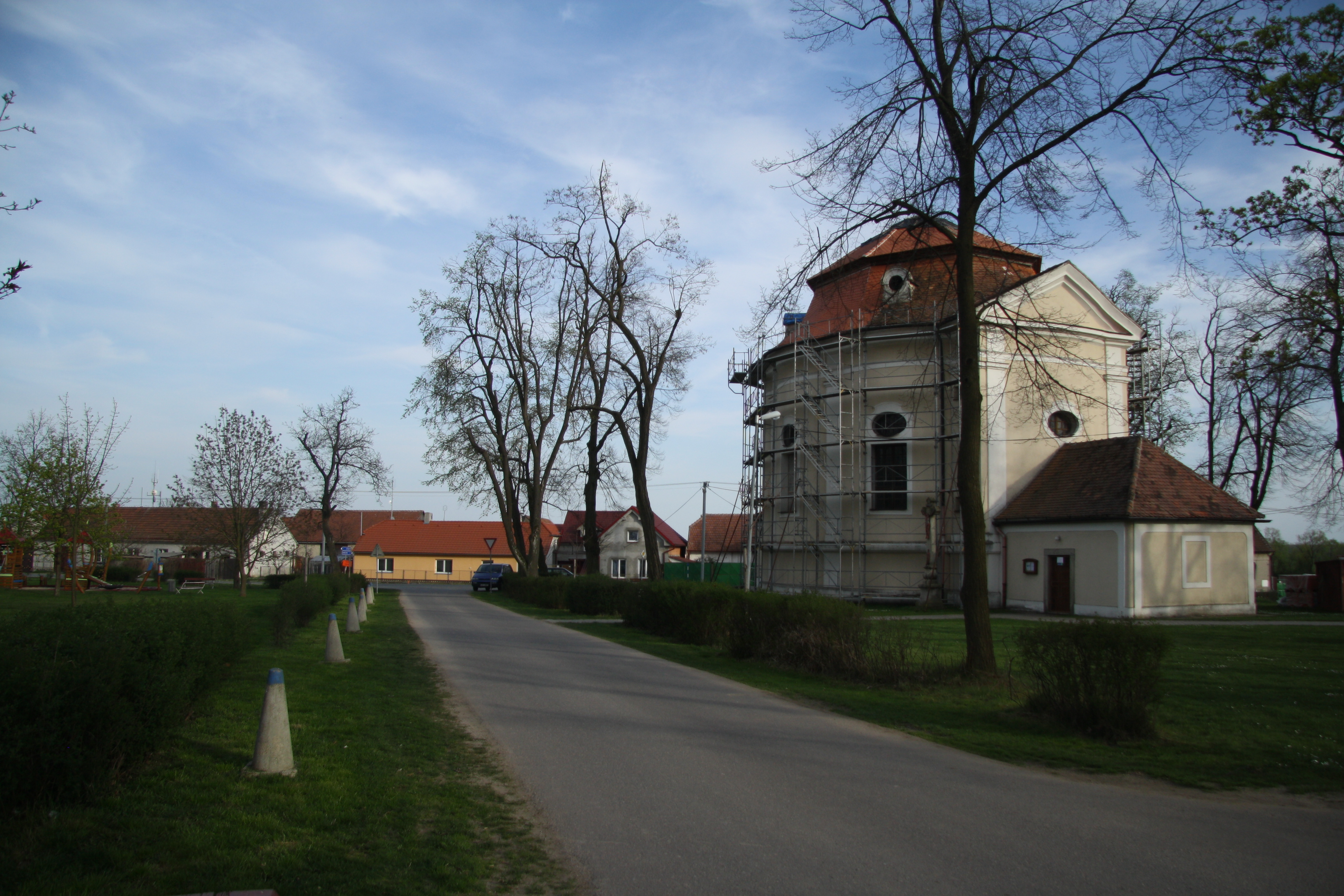 Center with Church of Saint John of Nepomuk in Litohoř, Třebíč District.